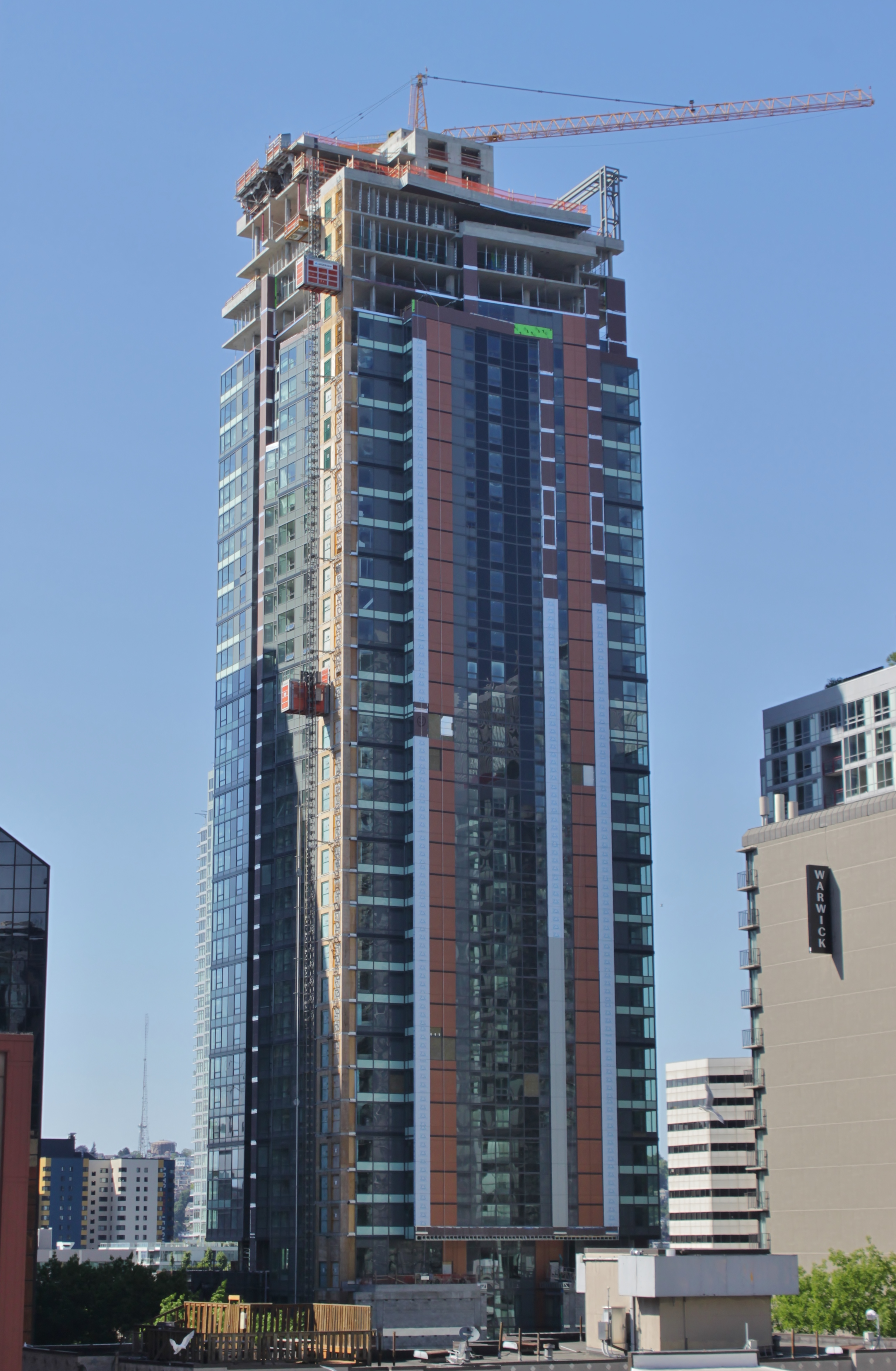 The near-complete Arrivé residential tower in Seattle, Washington, viewed from a nearby parking garage.